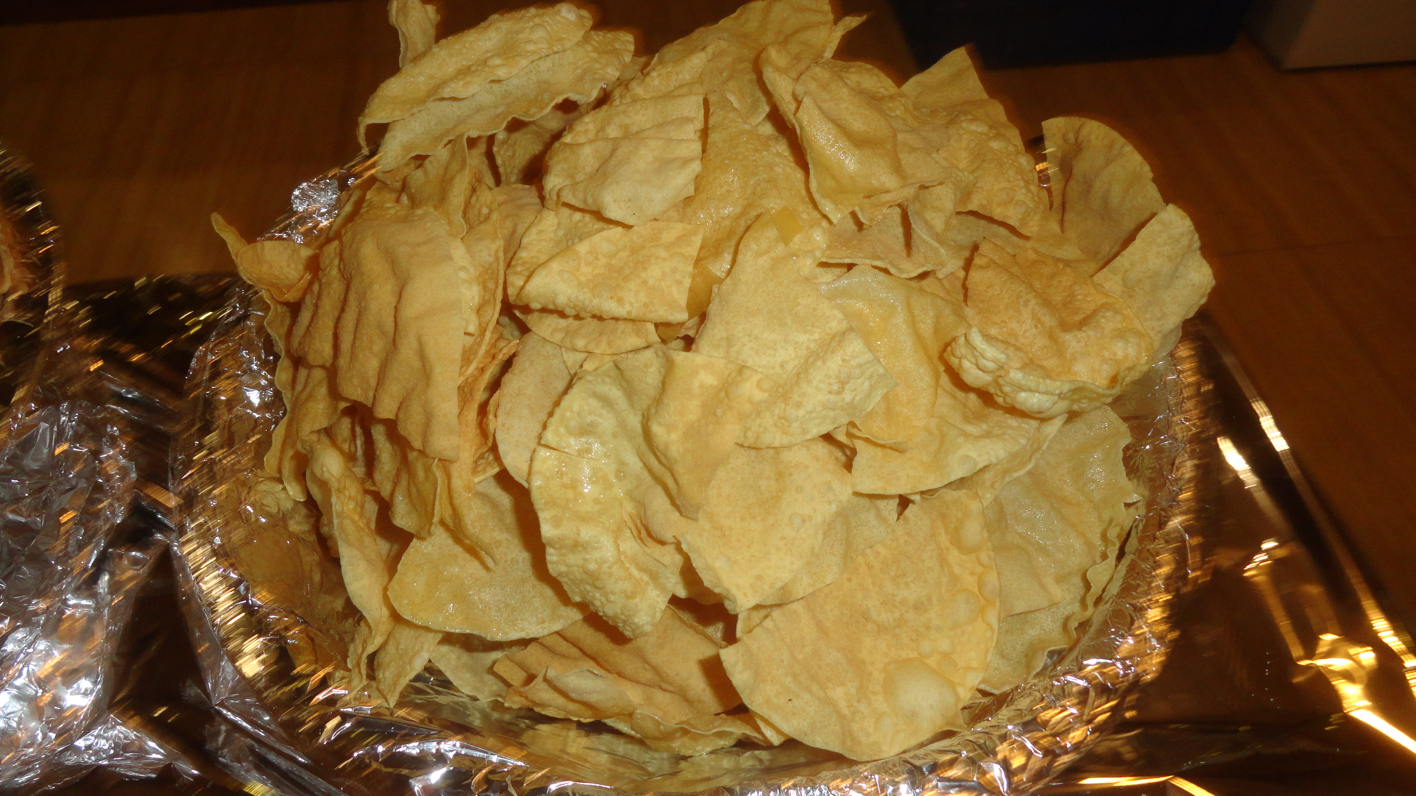 papadam is the side dish